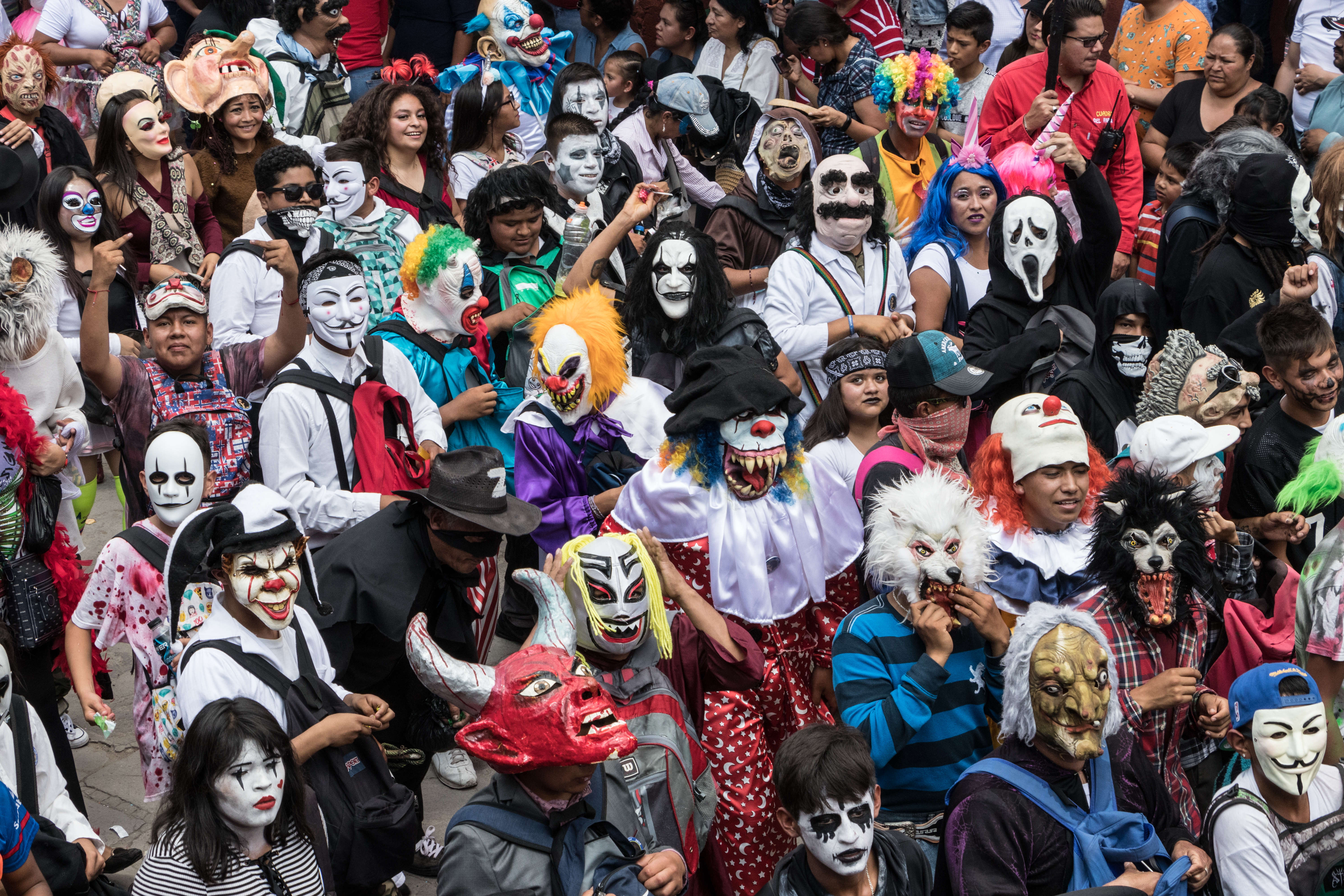 Parade of crazy people (desfile de los locos) celebrated in San Miguel Allende, Mexico, on the day of San Antonio de Padua, around father´s day...